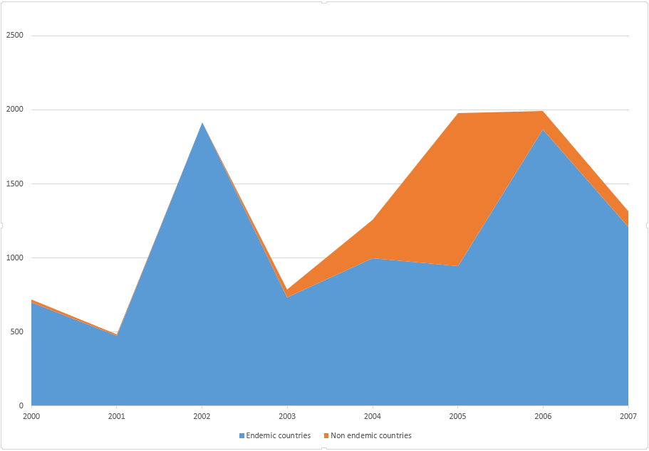 Confirmed cases of polio caused by wild virus in endemic and non-endemic countries for the period 2000-2007. Cumulative.[1]